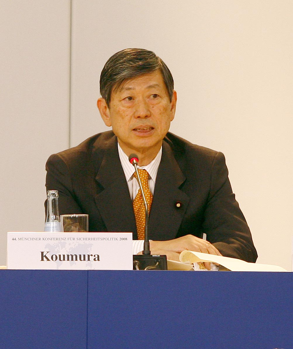 44th Munich Security Conference 2008: The Minister of Foreign Affairs, Japan, Masahiko Komura, during his Speech on Sunday.